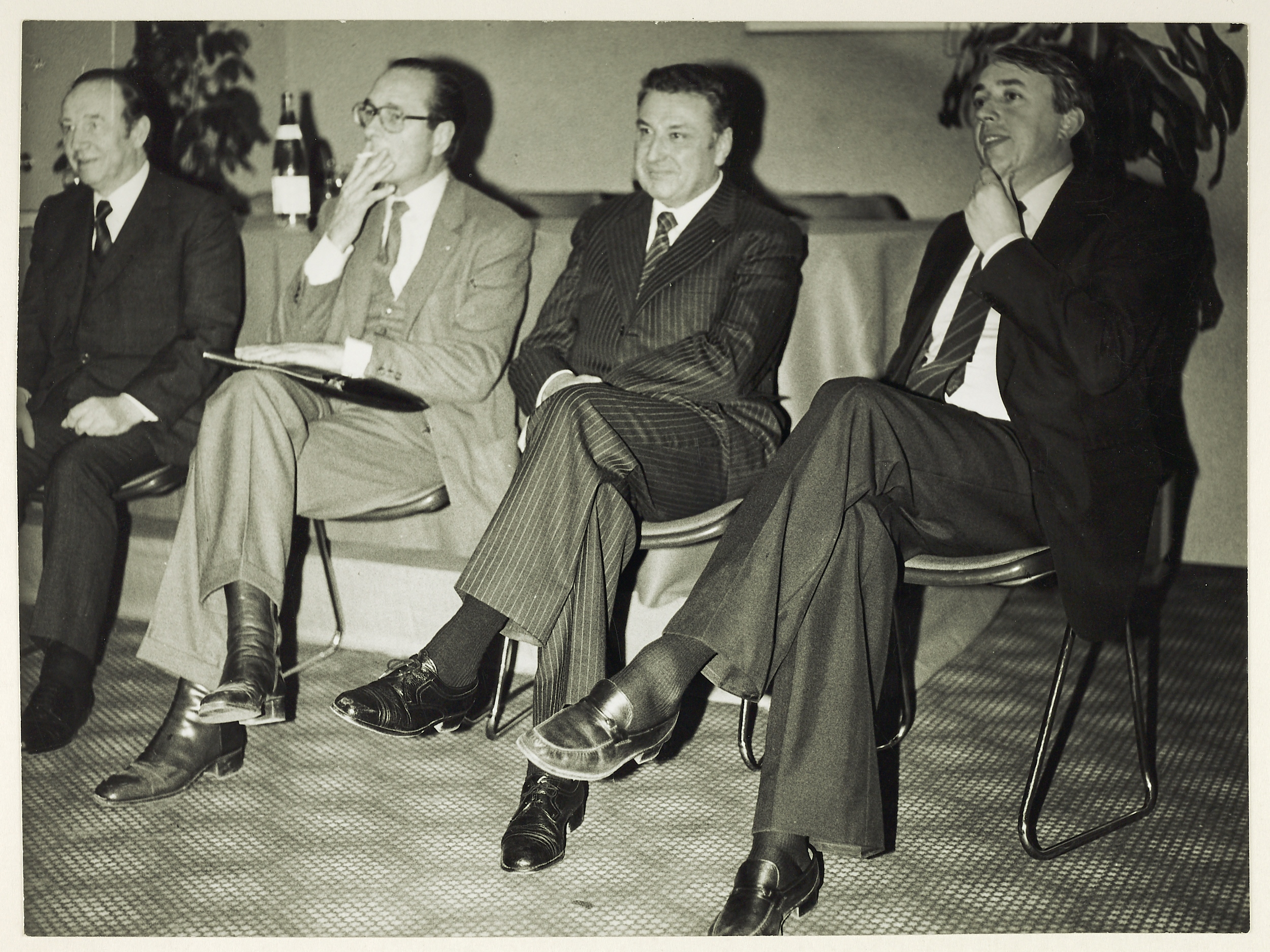 Musée de Bretagne, Collection Arts graphiques